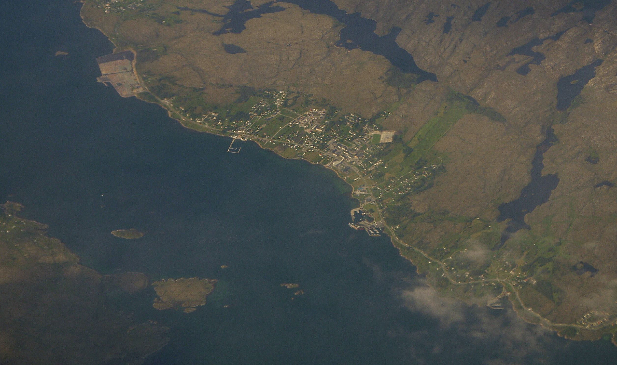 Aerial picture of village of Sistranda in Frøya, Norway.